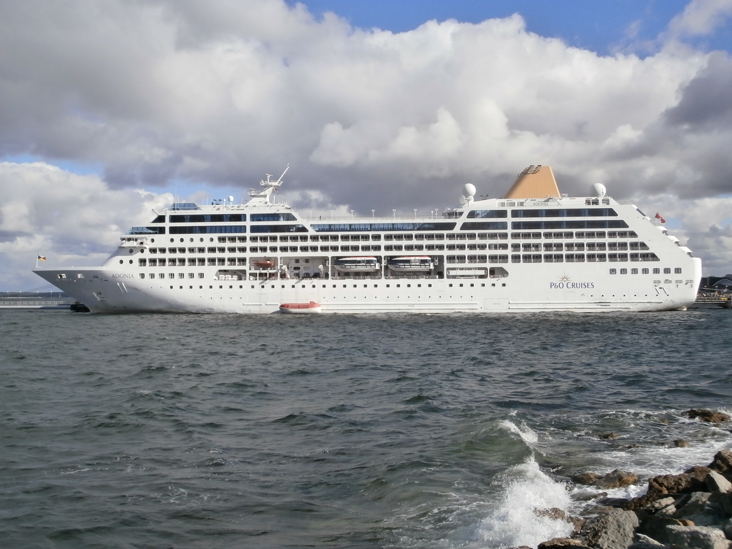 The cruise ship Adonia at Pier 24 in Tallinn, 25 September 2013